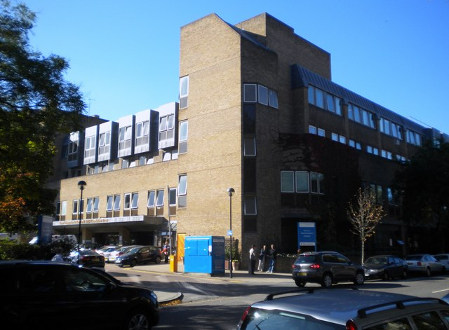 Royal Brompton Hospital, Sydney Street SW3